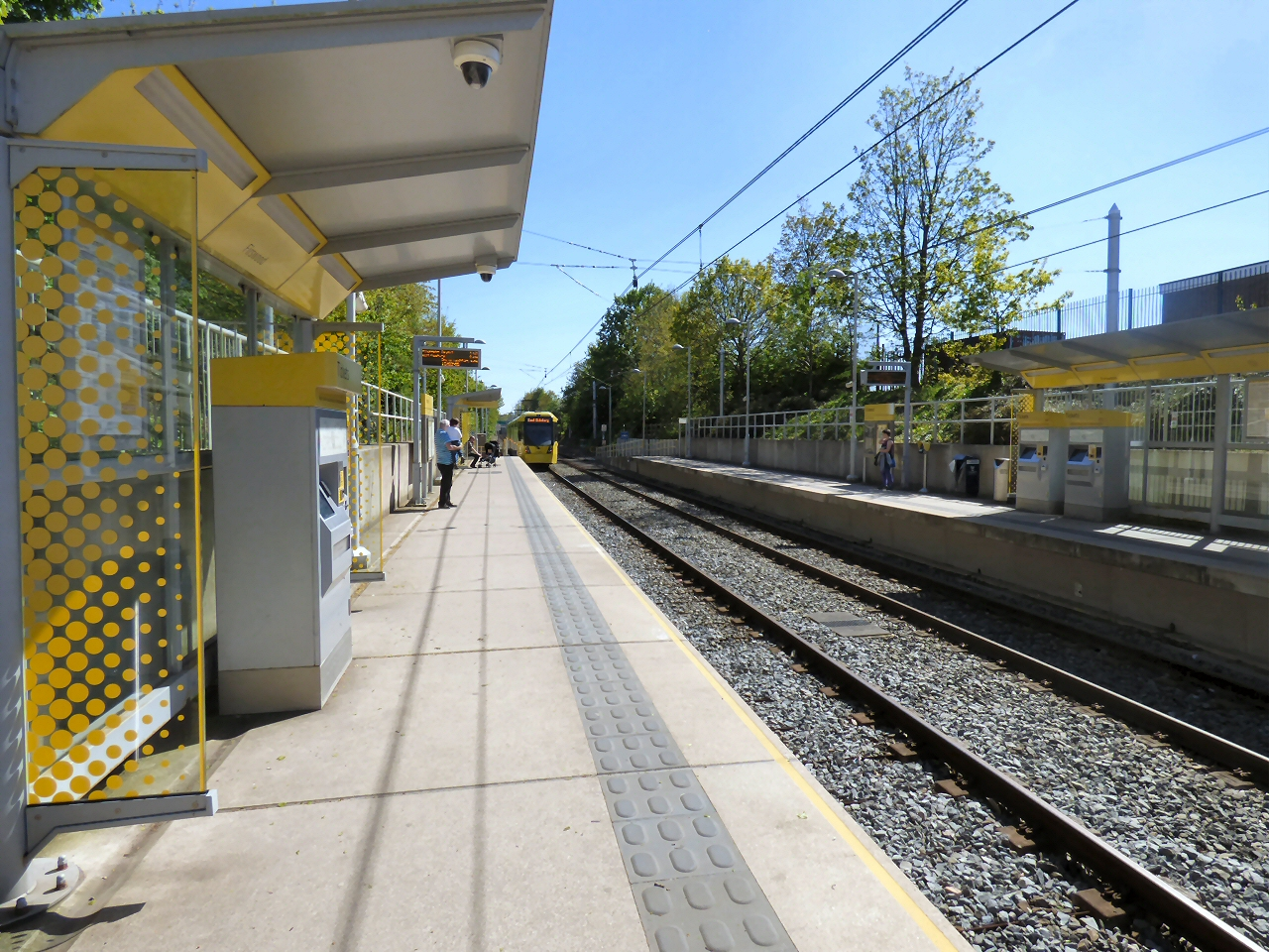 Firswood Metrolink Tram Stop, on the line to East Didsbury and Manchester Airport.